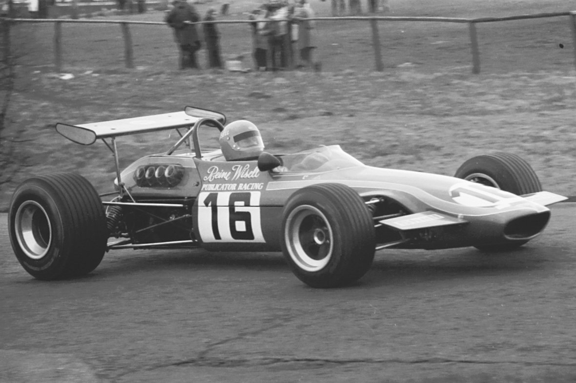 Reine Wisell in the works Chevron B17c Formula 2 car during practice for the Eifelrennen at Nürburgring in April 1970.